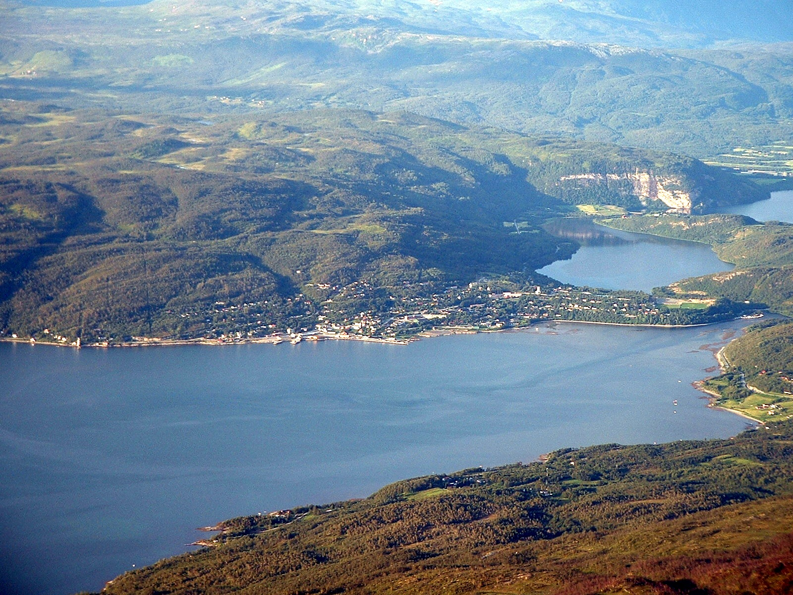 The picture shows Sjøvegan, the administrative centre of Salangen municipality in Troms county in Norway, and the surrounding areas. The inner part of the Salangen fjord, Sagfjorden lies in front of Sjøvegan, and to the right Nervatn and a part of Øvervatn is visible. The picture is taken from Høgfjellet, the second highest mountain in the municipality, more than 1200 metres above sea level.